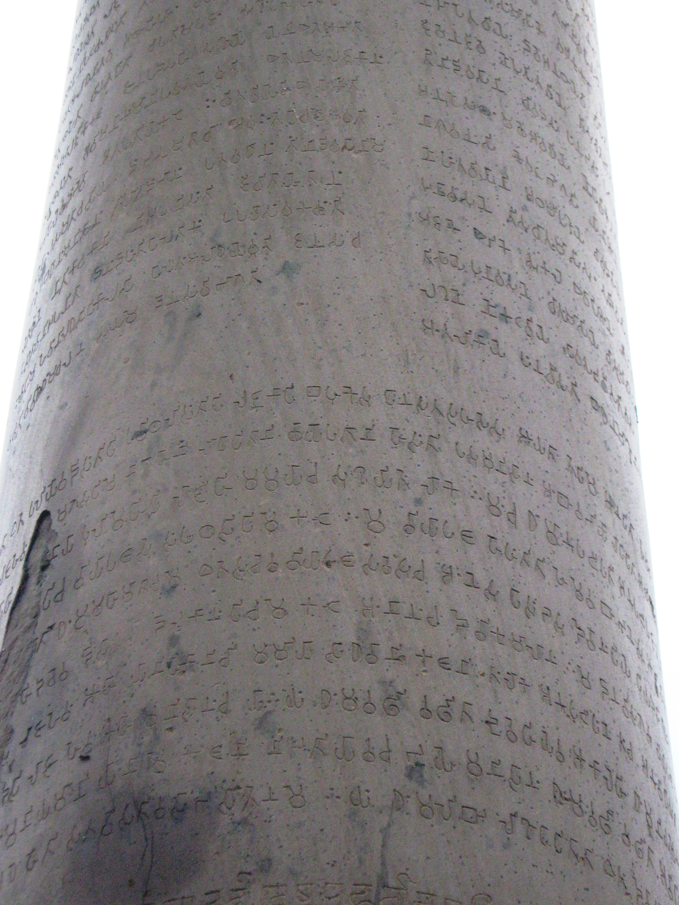 Urdu and several other language writings on Ashoka Pillar at Feroze Shah Kotla, Delhi